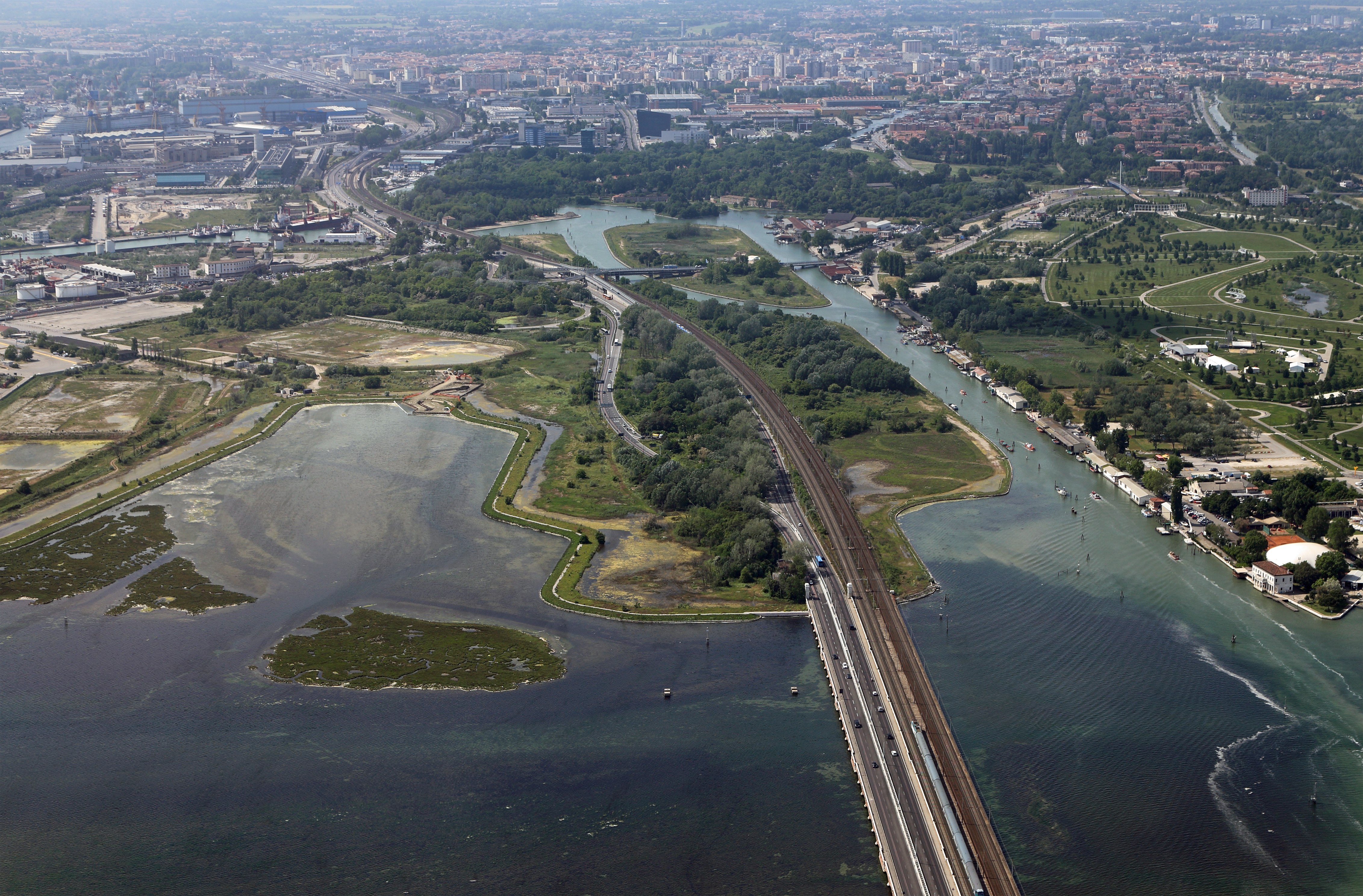 Mestre (Venice, Italy), seen from the air. Left: Porto Marghera. In the distance: the city centre of Mestre. Foreground: the Ponte della Liberta.